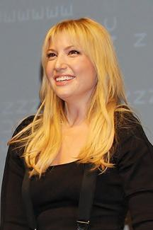 Ari Graynor at the "For a Good Time, Call..." World Premiere on Sunday, January 22, 2012 at the Eccles Theatre in Park City, Utah